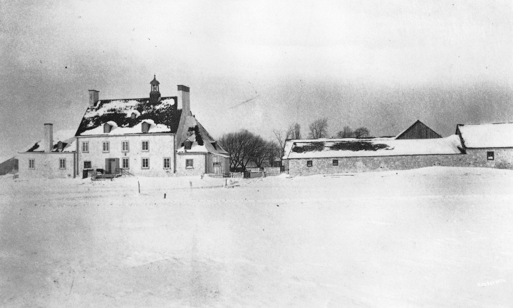 Photograph, St. Gabriel Farm, Pointe St. Charles, Montreal, QC, about 1865, Alexander Henderson, Silver salts on paper mounted on paper - Albumen process, 16.5 x 21.6 cm